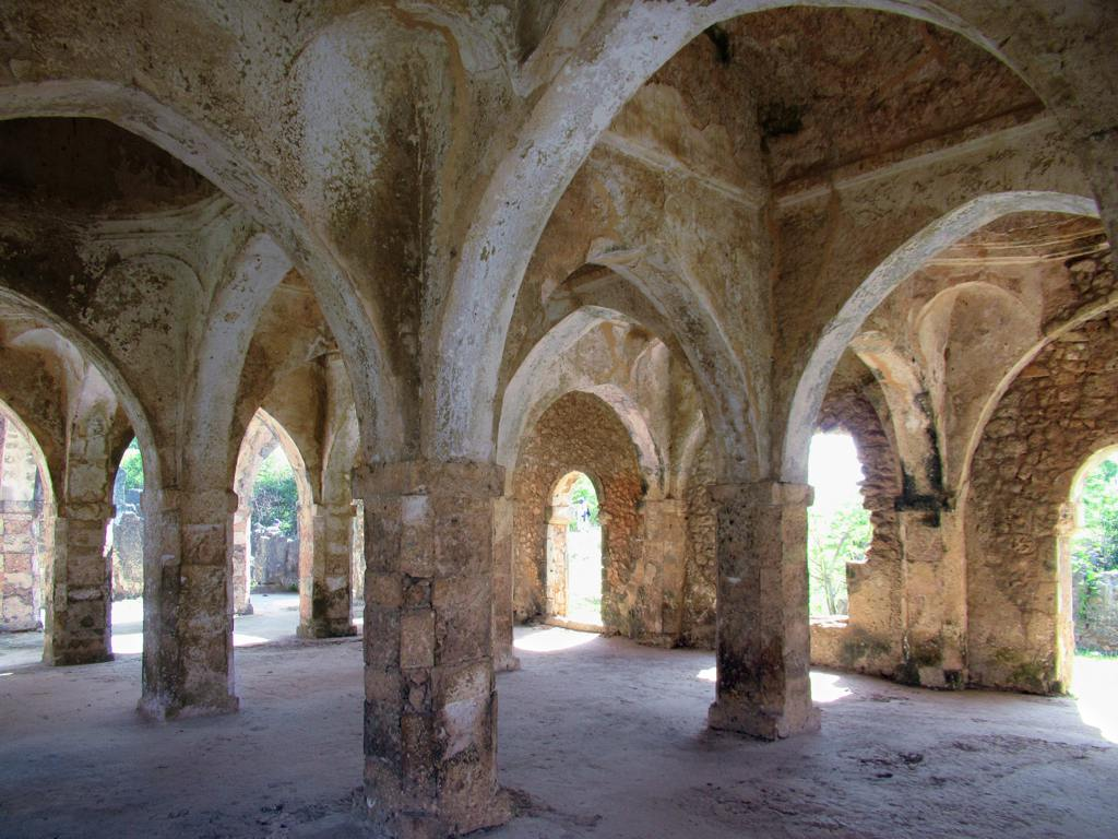 The 14th century Great Mosque on Kilwa Kisiwani Island, Tanzania, is the oldest standing mosque on the East African coast. Its 16 domed and vaulted bays are unique.